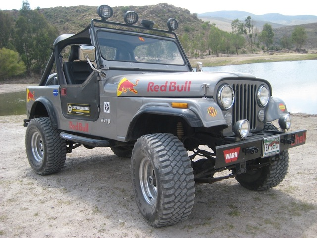 Customized CJ7 Jeep